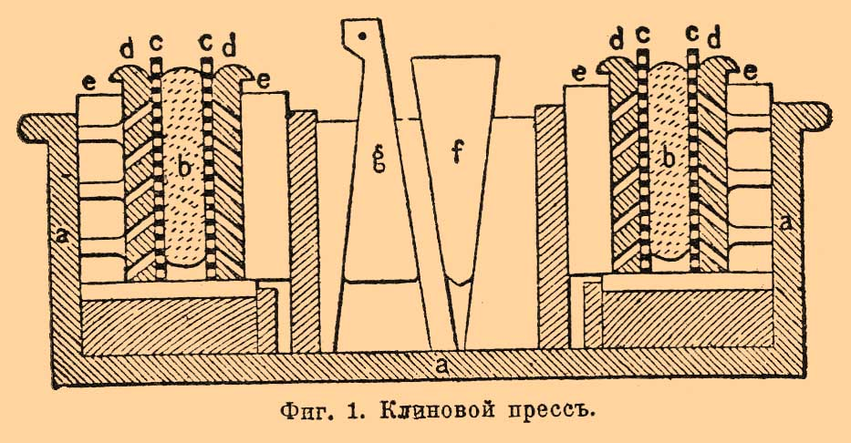 Illustration from Brockhaus and Efron Encyclopedic Dictionary (1890—1907)